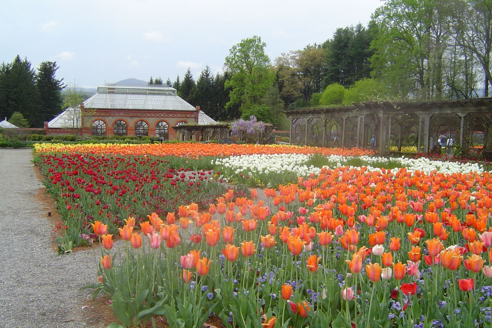 The "Walled Garden" with tulip beds and main Conservatory — of the Biltmore Estate gardens. At the Biltmore Estate, North Carolina, U.S.